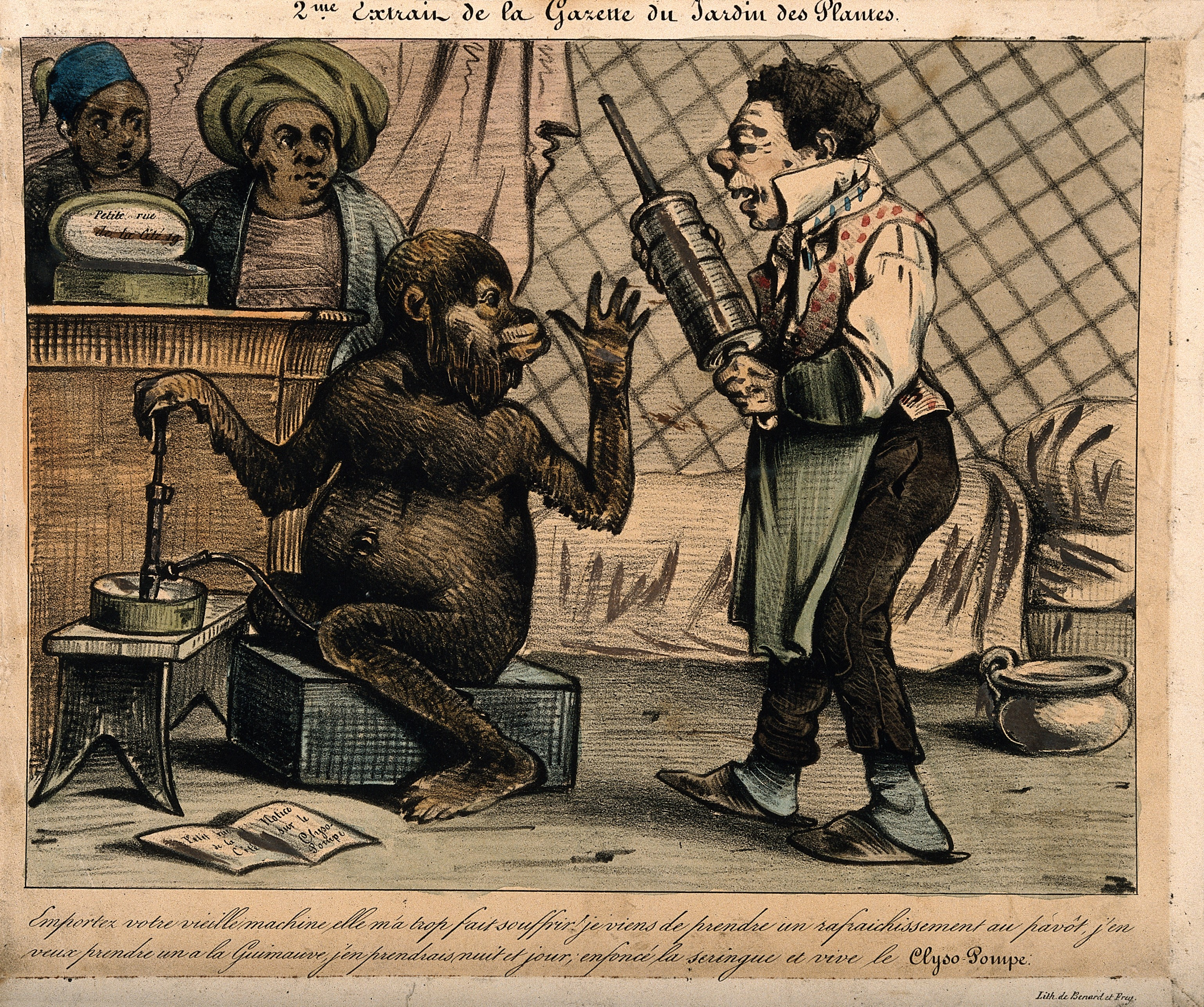 Topic-LCSH: Enema. Monkeys. Opium. Zoos -- France. Turks. Genre/Technique: Caricatures. Lithographs.